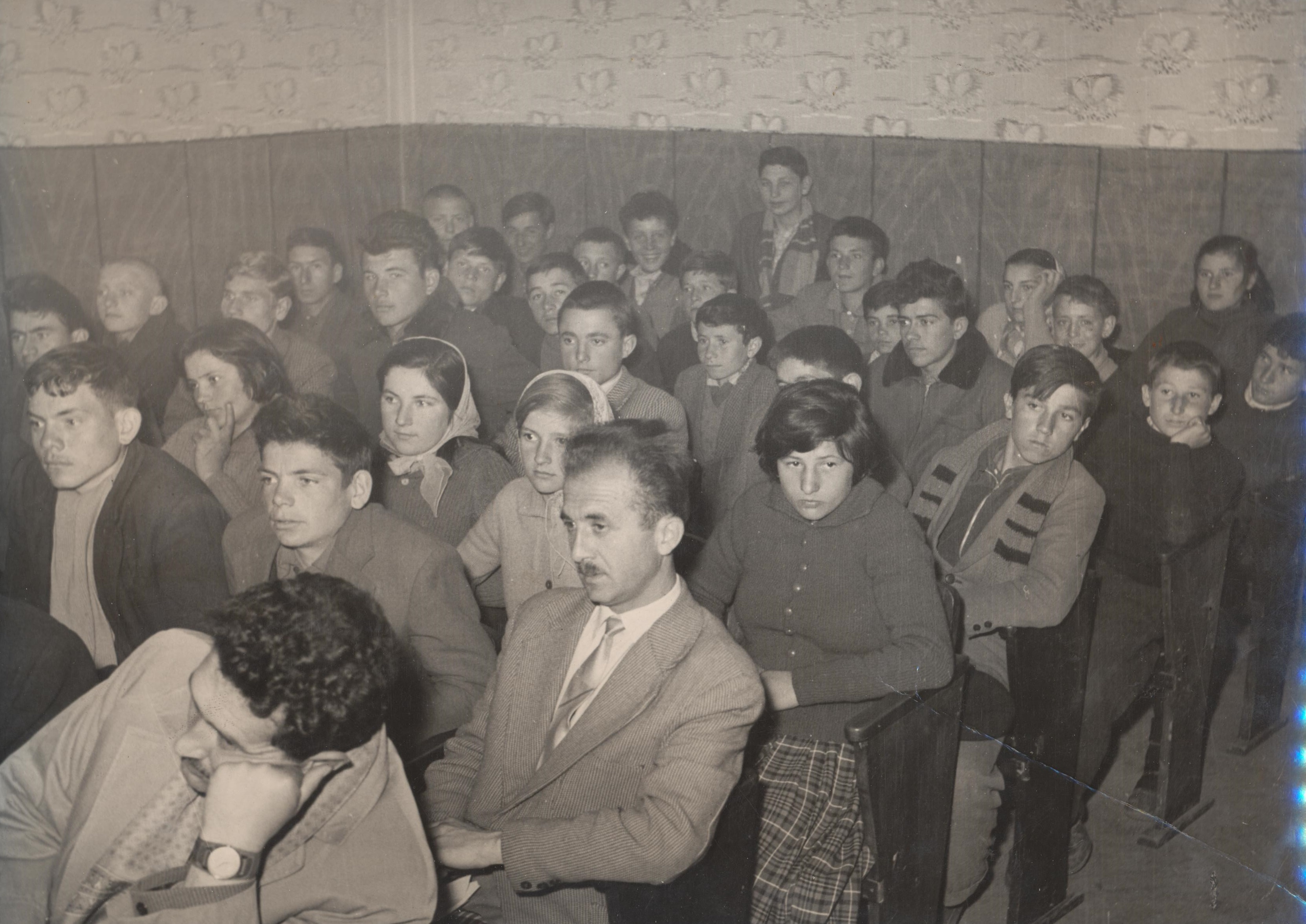 Pupils from School in Rasnica attended the session of the People's Liberation Committee of the Municipality of Pirot